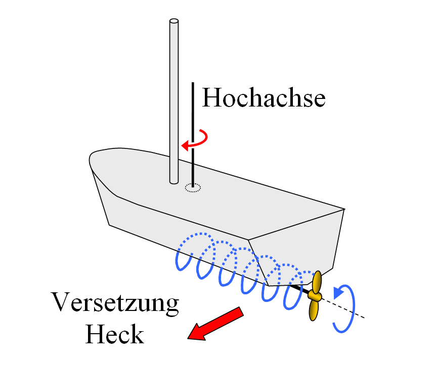 Propeller walk of a clockwise rotating propeller operating in reverse gear